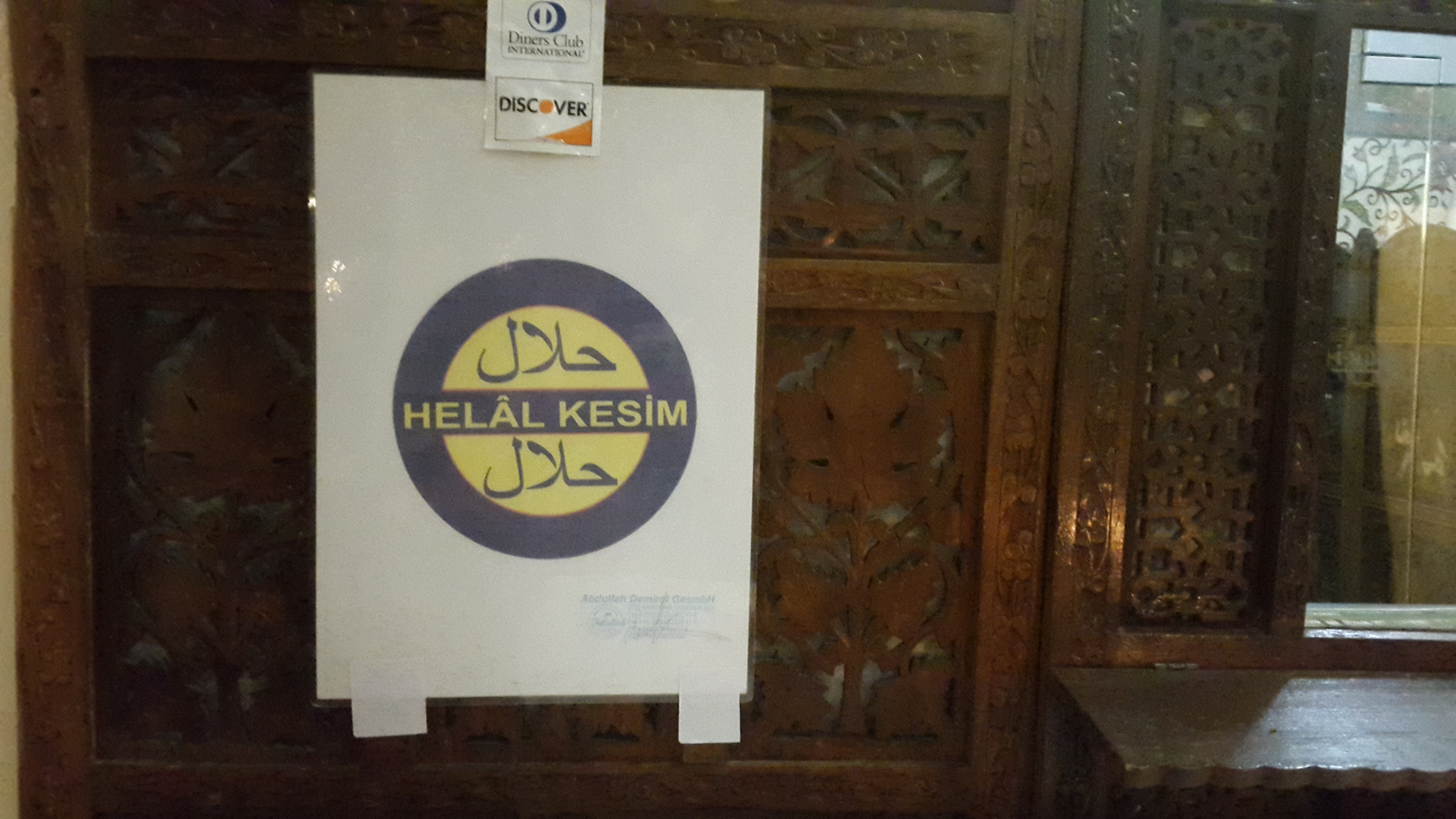 a Halal sign in an indian restaurant